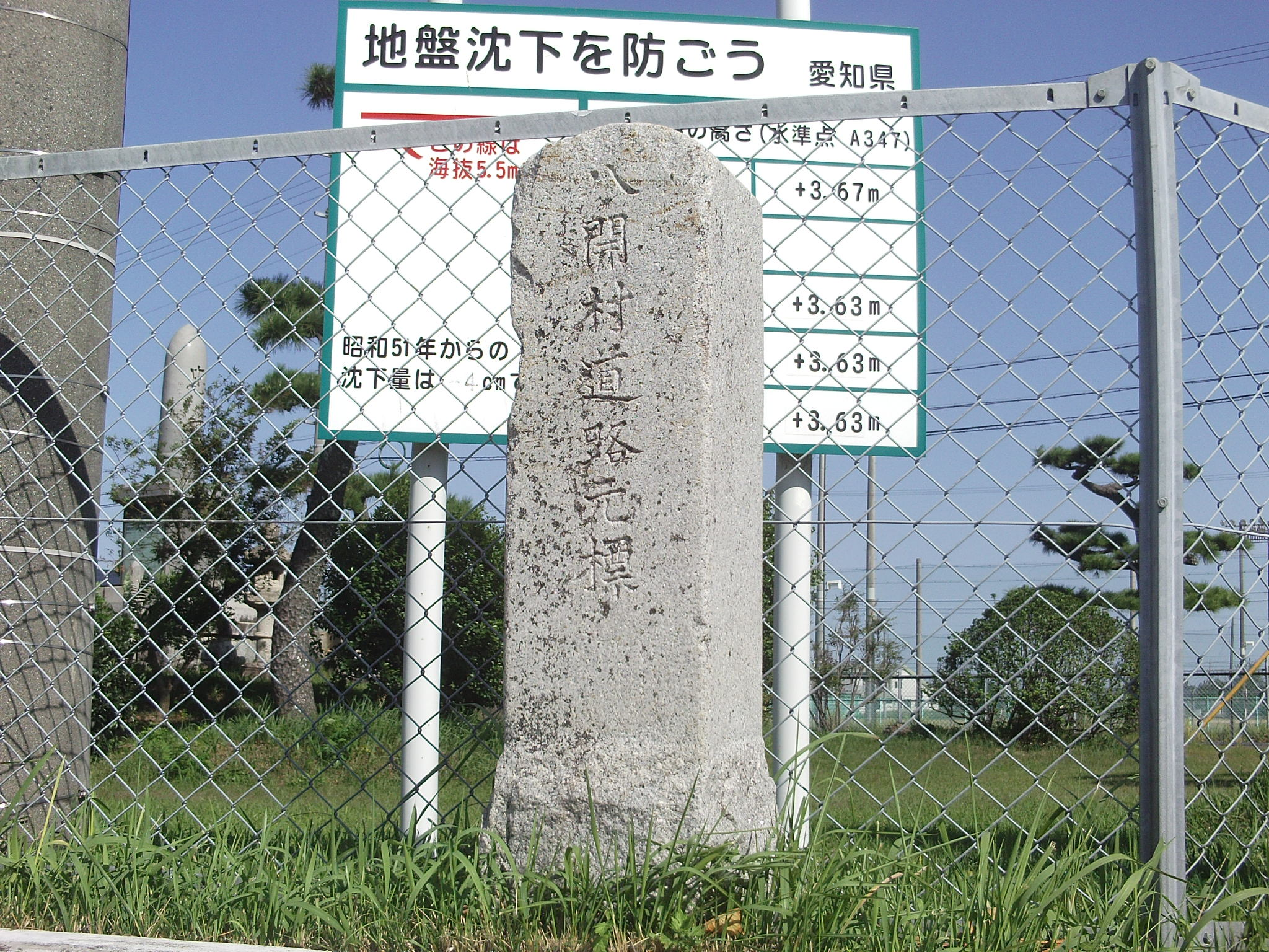 Kilometre zero of Hachikai village. (Hichikai village, Ama-gun, Aichi.)